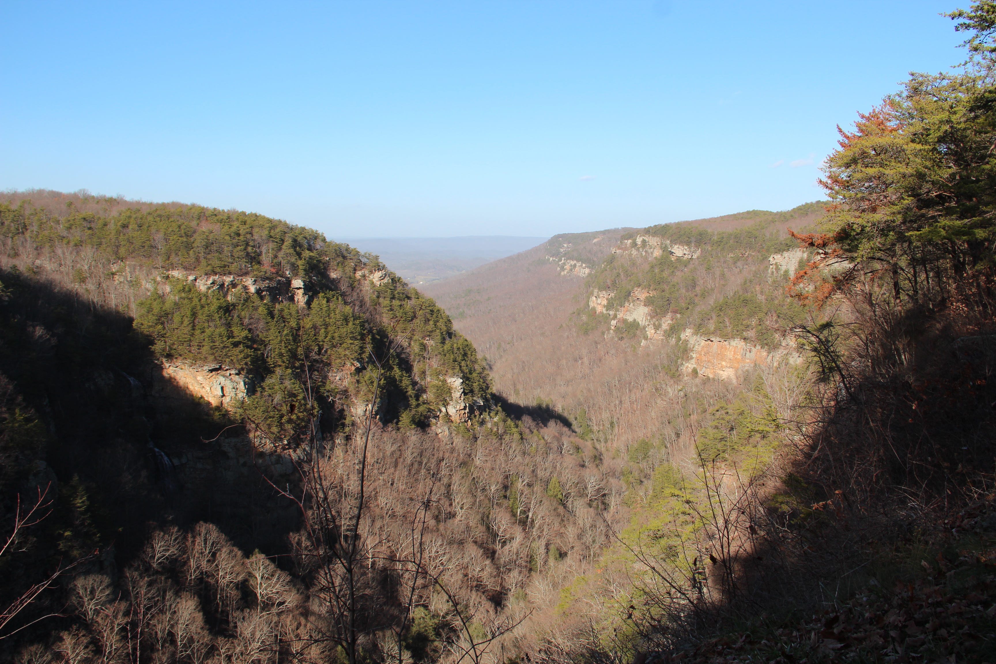 Cloudland Canyon in the winter